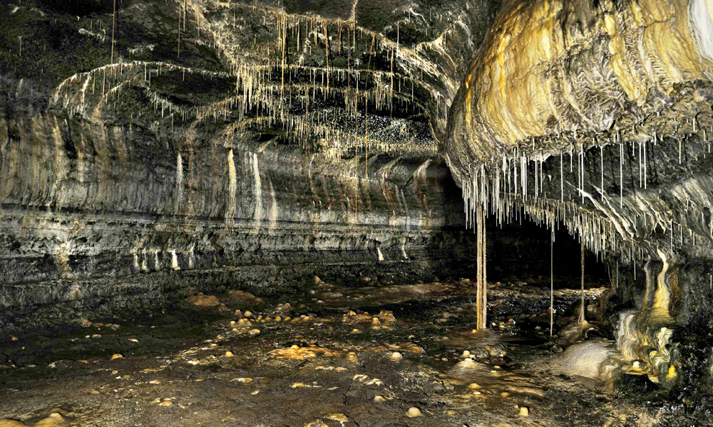 Jeju-do, a Special Self-Governing Province is the only special autonomous province of Korea, situated on and coterminous with the country's largest island.